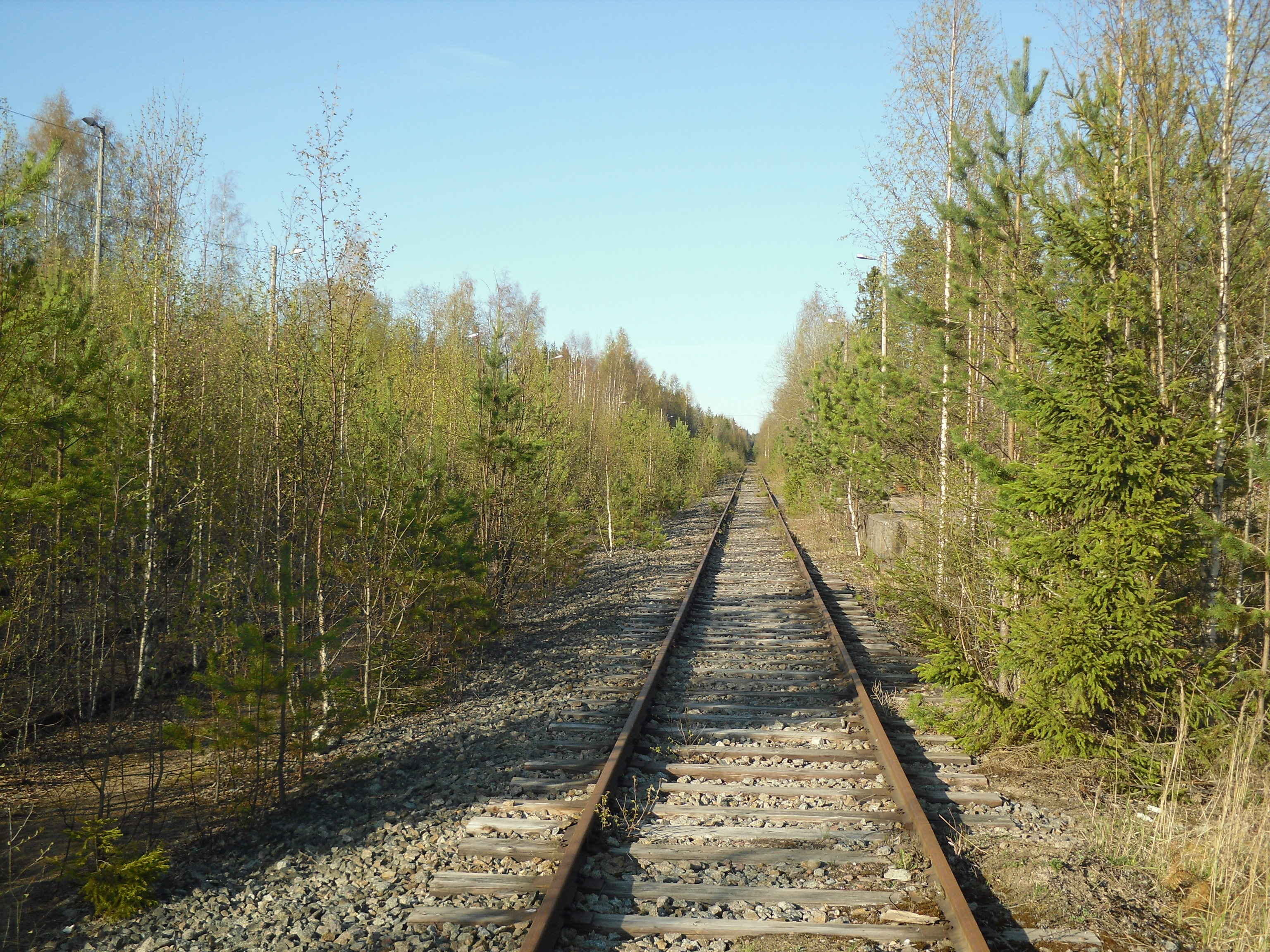 Old and abandoned railways at Kankaanpää railwaystation